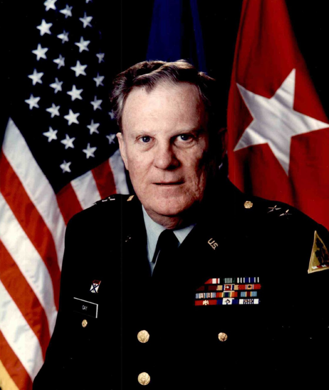 David W. Gay - Official NGB photo